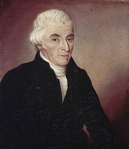 Reverend John Stuart (c1740-1811) Anglican priest, missionary, educator, Loyalist